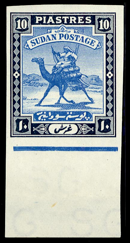 Stamp of Anglo-Egyptian Sudan. Desert Postman on Camel 10p colour trial